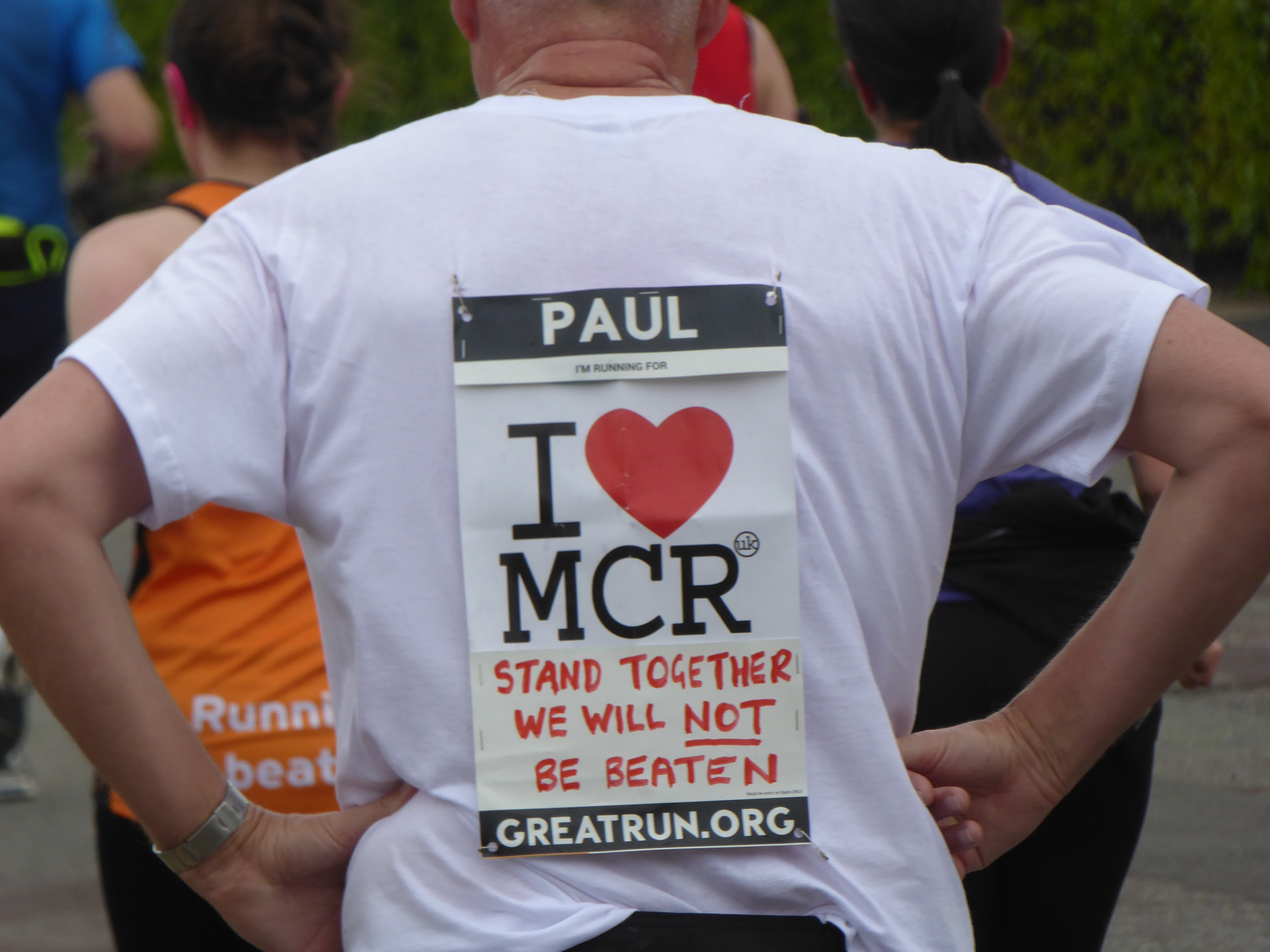 Great Manchester Run, Victoria Place, Manchester, England, 28 May 2017